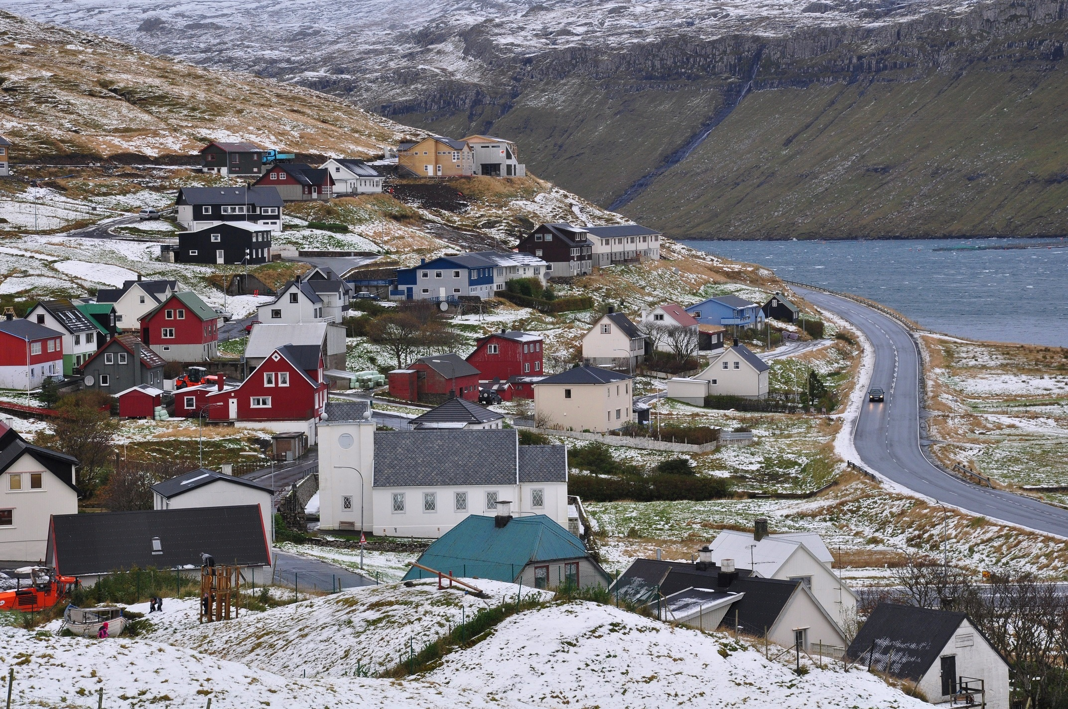 Village centre of Hósvík, with church (Streymoy, Faroe Islands, Denmark). Note the 4 playing children (foreground, left).